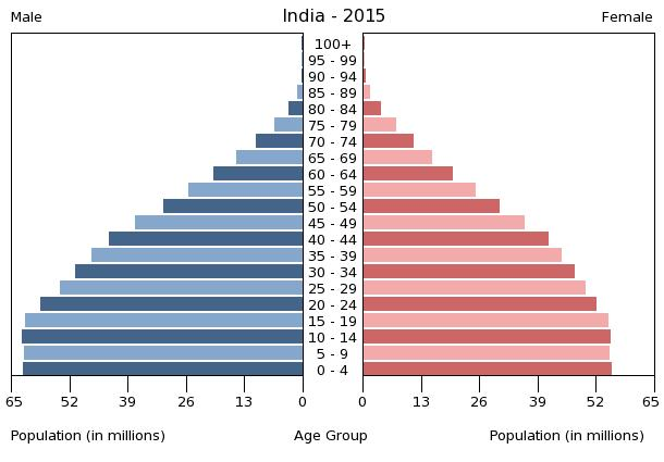 A population pyramid illustrates the age and sex structure of population and may provide insights about political and social stability, as well as economic development. The population is distributed along the horizontal axis, with males shown on the left and females on the right. The male and female populations are broken down into 5-year age groups represented as horizontal bars along the vertical axis, with the youngest age groups at the bottom and the oldest at the top. The shape of the population pyramid gradually evolves over time based on fertility, mortality, and international migration trends.